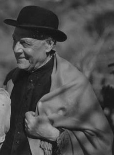 Juan Siches de Alarcon